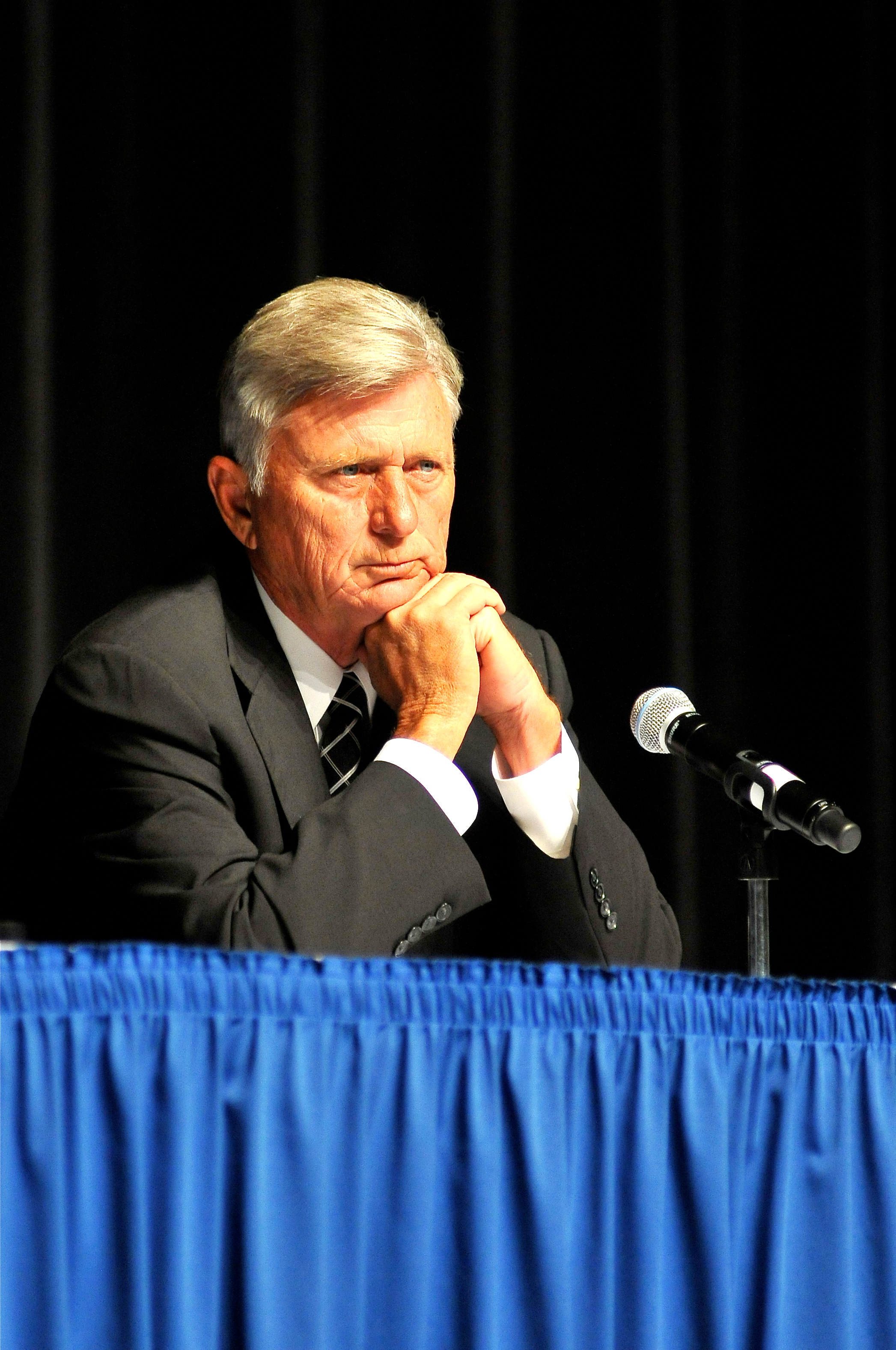 Friday morning at the Bar Meeting